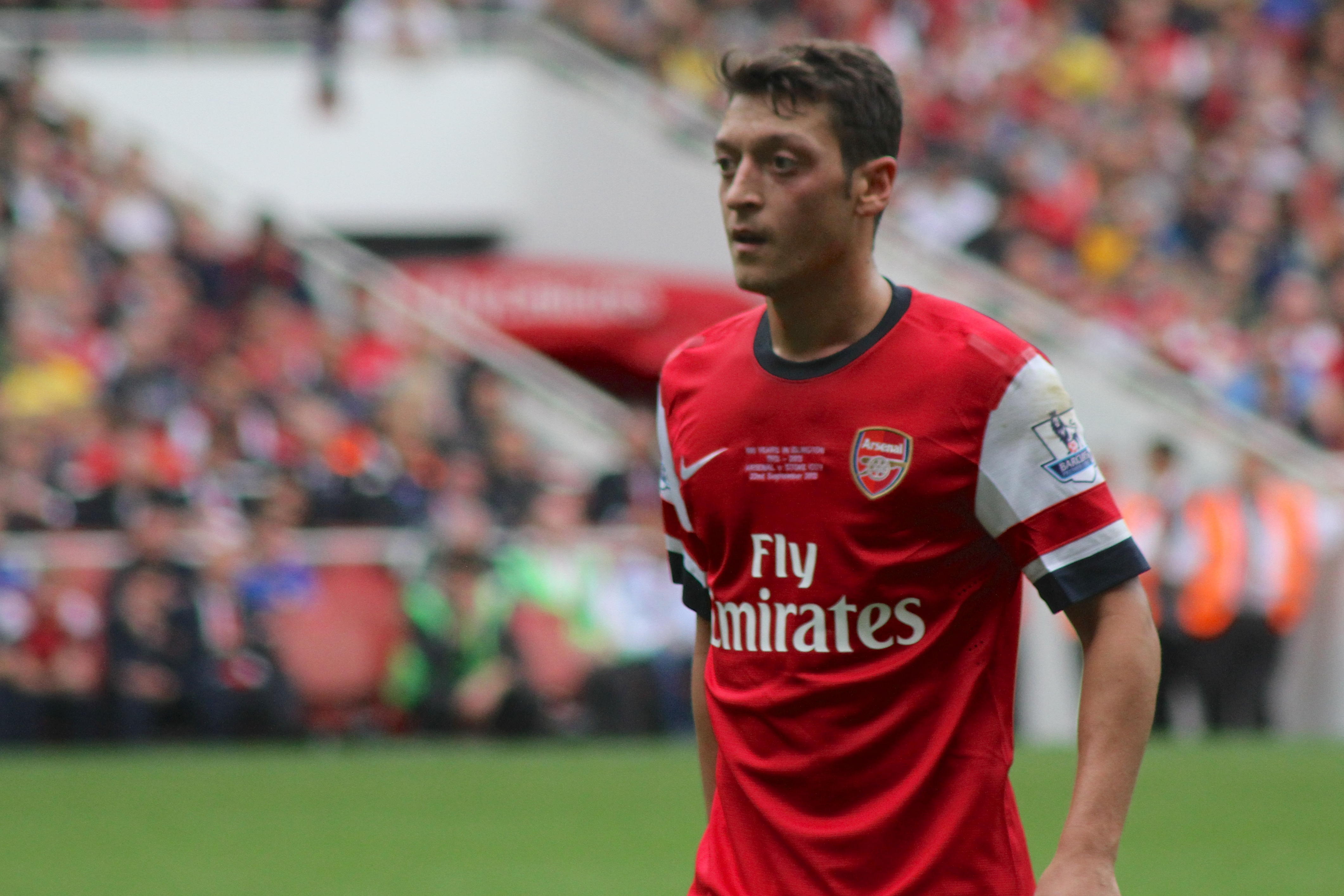 Mesut Özil playing for Arsenal.